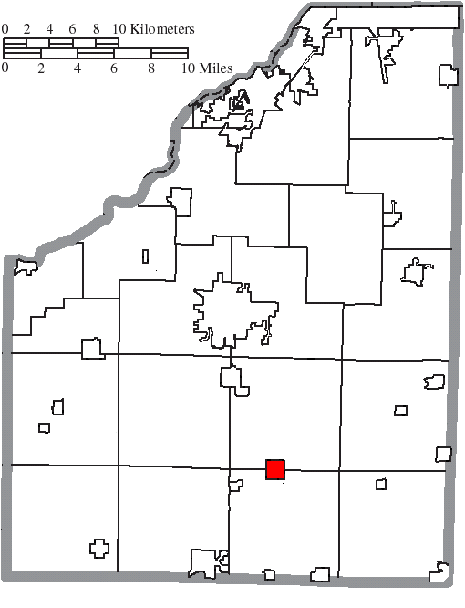 Map of the municipal and township boundaries of Wood County, Ohio, United States, as of the 2000 census, with the location of the village of Jerry City highlighted. Township borders are shown only in unincorporated areas in order to differentiate incorporated and unincorporated areas more clearly.